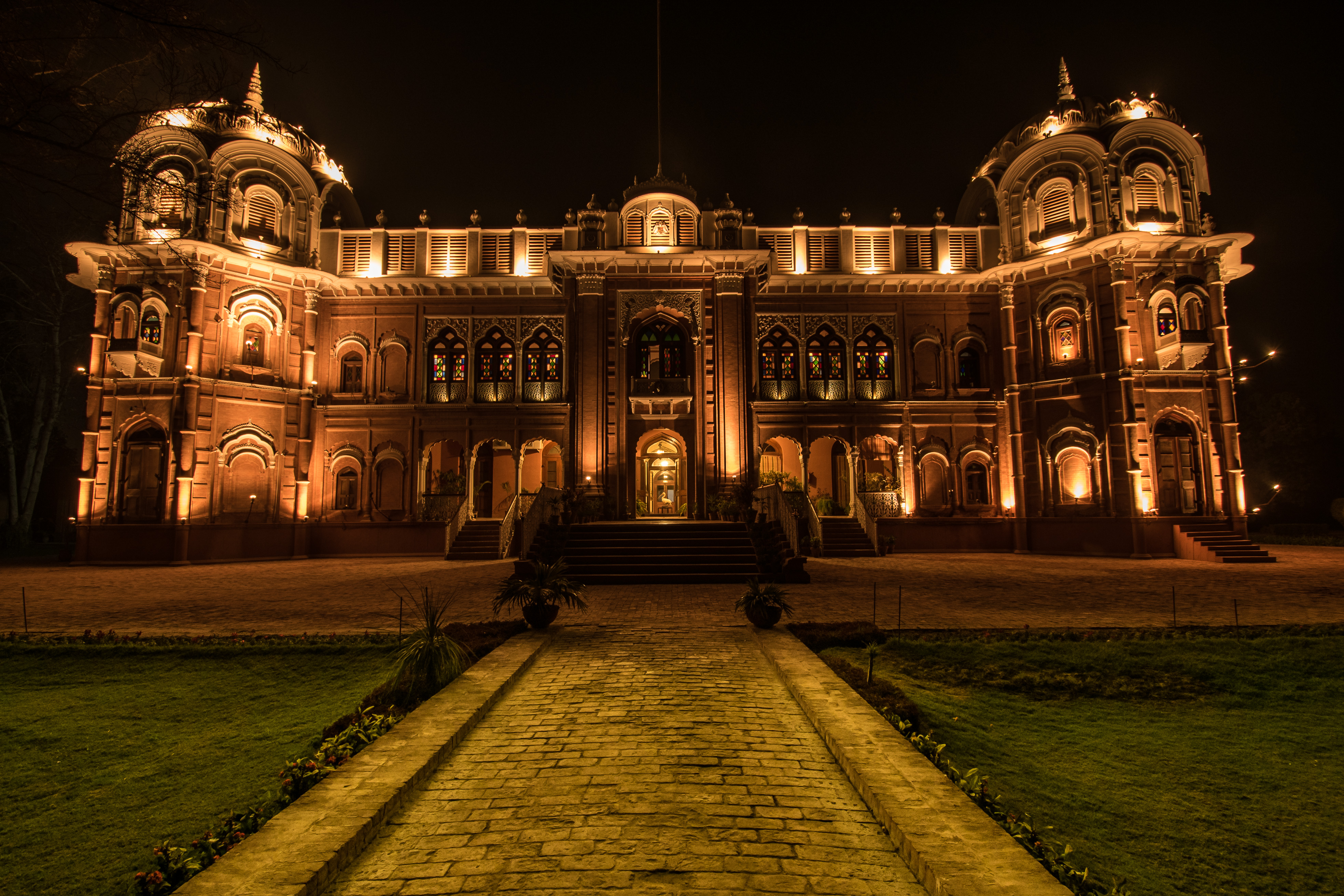 Darbar Mahal This is a photo of a monument in Pakistan identified as the PB-U-68